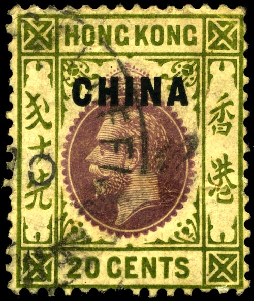 United Kingdom offices in China 20c stamp of 1917